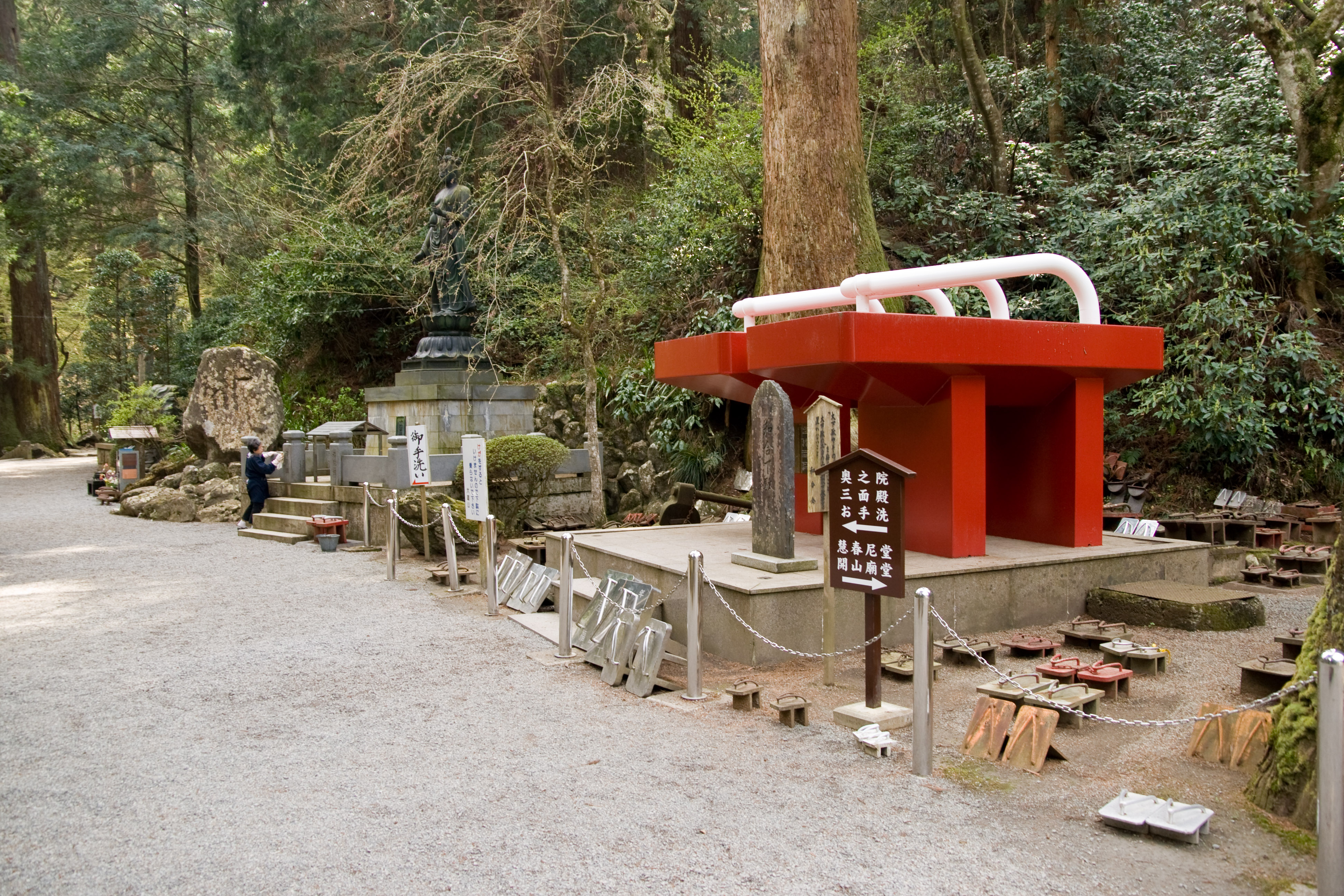 Daiyuzan Saijoji Temple, Minami-ashigara City, Kanagawa, Japan.